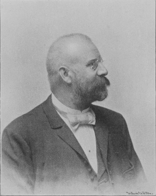 Portrait of Bohuslav Schnirch (1845-1901), Czech sculptor.